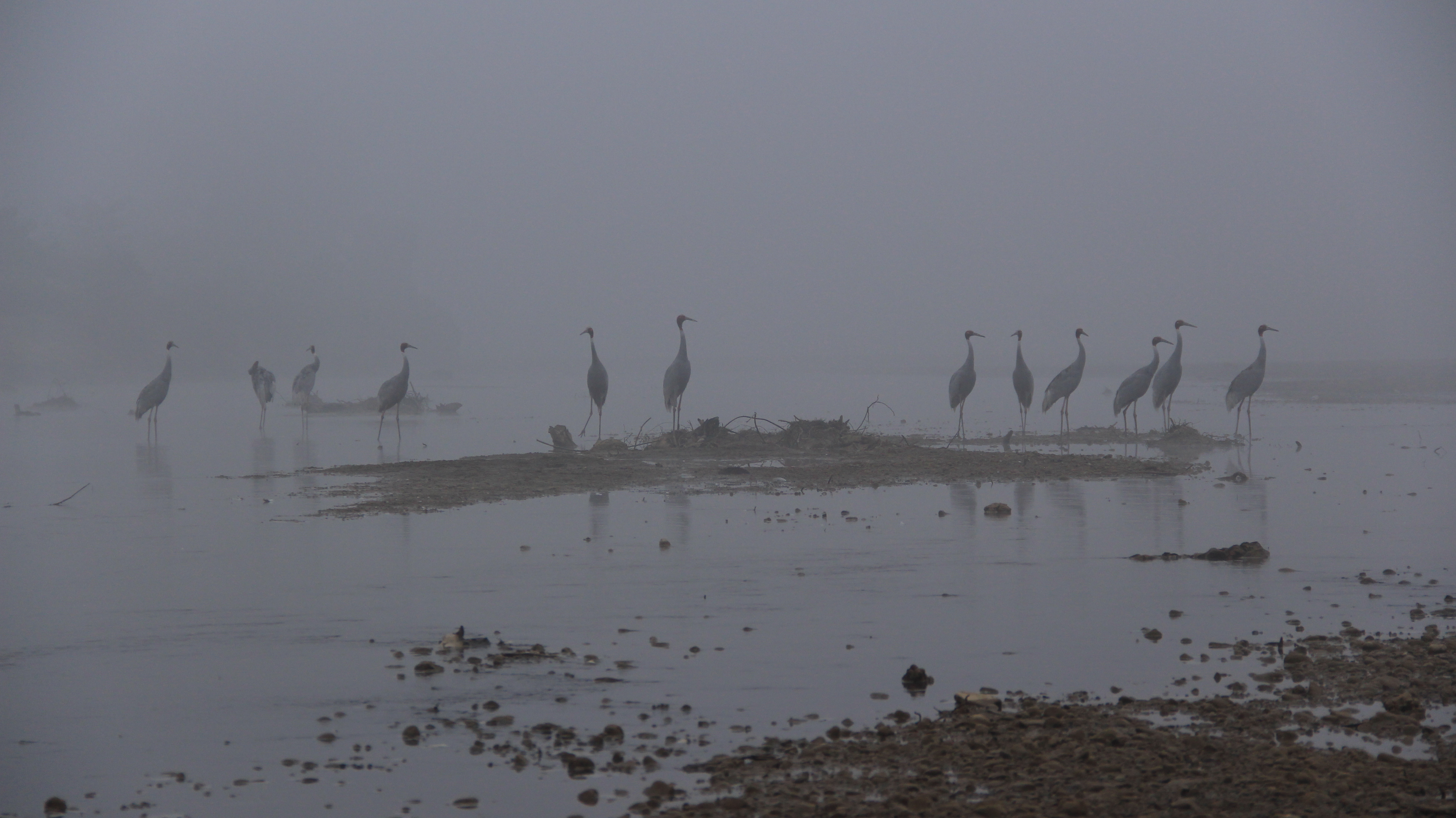 Jagadishpur Reservoir